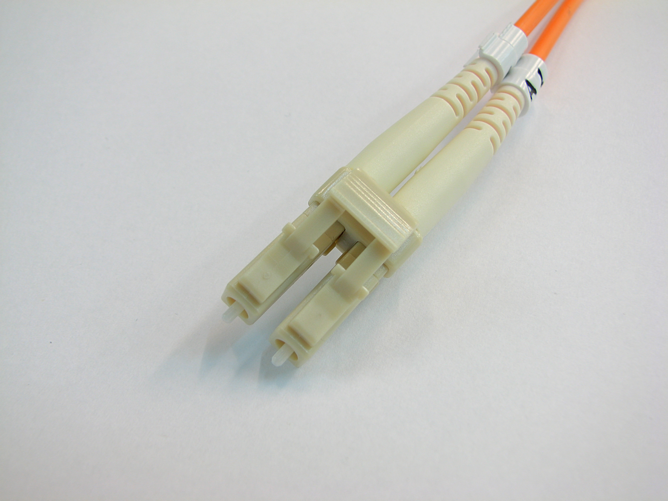 LC optical fiber connector.